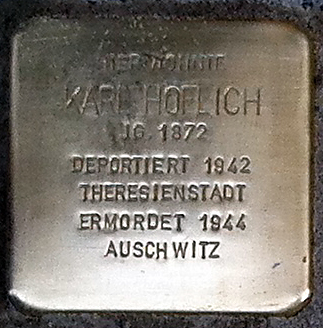 Stolperstein - Stumbling Stone in Nettetal, NRW, Germany Karl Hoeflich